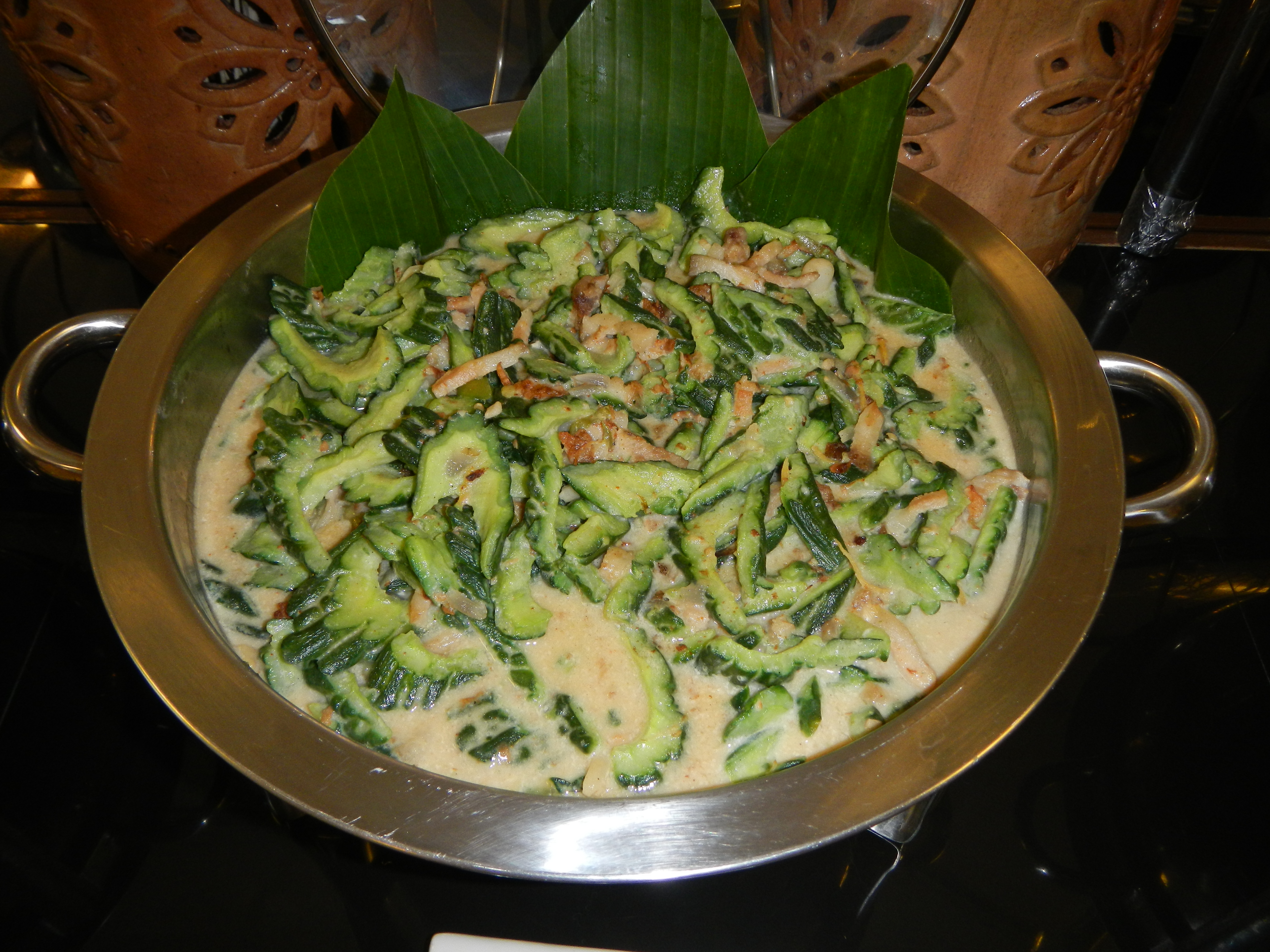 Upload Wizard photos -- (General description, 3-dimension angle by angle photography of this town, church & landmarks) -- a Filipino buffet[1] in NE Super Bodega NE Supermarket and NE Superbodega Restaurant, at DRT Maharlika Highway,[2] Bagong Nayon, Baliuag, Bulacan, originating and owned by NE Pacific Mall[3], Victory Liner and Five Star bus stop terminal at Barangay Balite, San Miguel, Bulacan,[4], the dike and stream thereat.